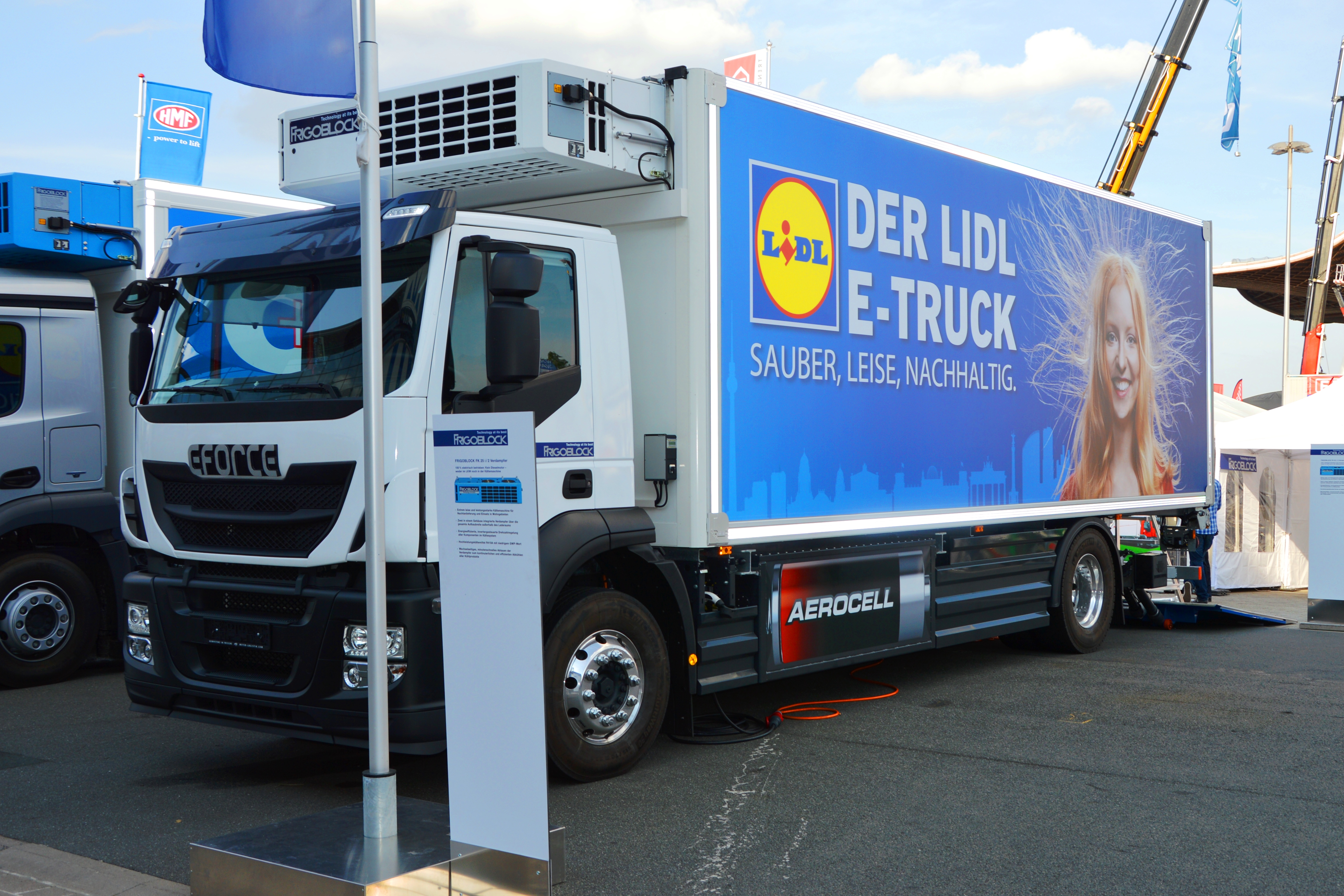 Iveco Stralis AD 190 S31 P. The first Lidl electric truck. Performance: 408 hp. Photo taken at exhibition IAA 2014 in Hanover, Germany.